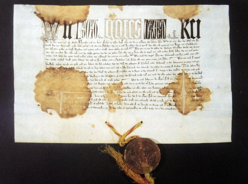 Certificate of Emperor Louis IV. Of Bavaria in 1341; in this document Frederick I. of Sanneck was raised to the rank of Count of Cilli. This work is in the public domain in its country of origin and other countries and areas where the copyright term is the author's life plus 100 years or less. You must also include a United States public domain tag to indicate why this work is in the public domain in the United States. This file has been identified as being free of known restrictions under copyright law, including all related and neighboring rights.